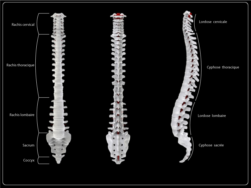 The vertebral column - Anatomy